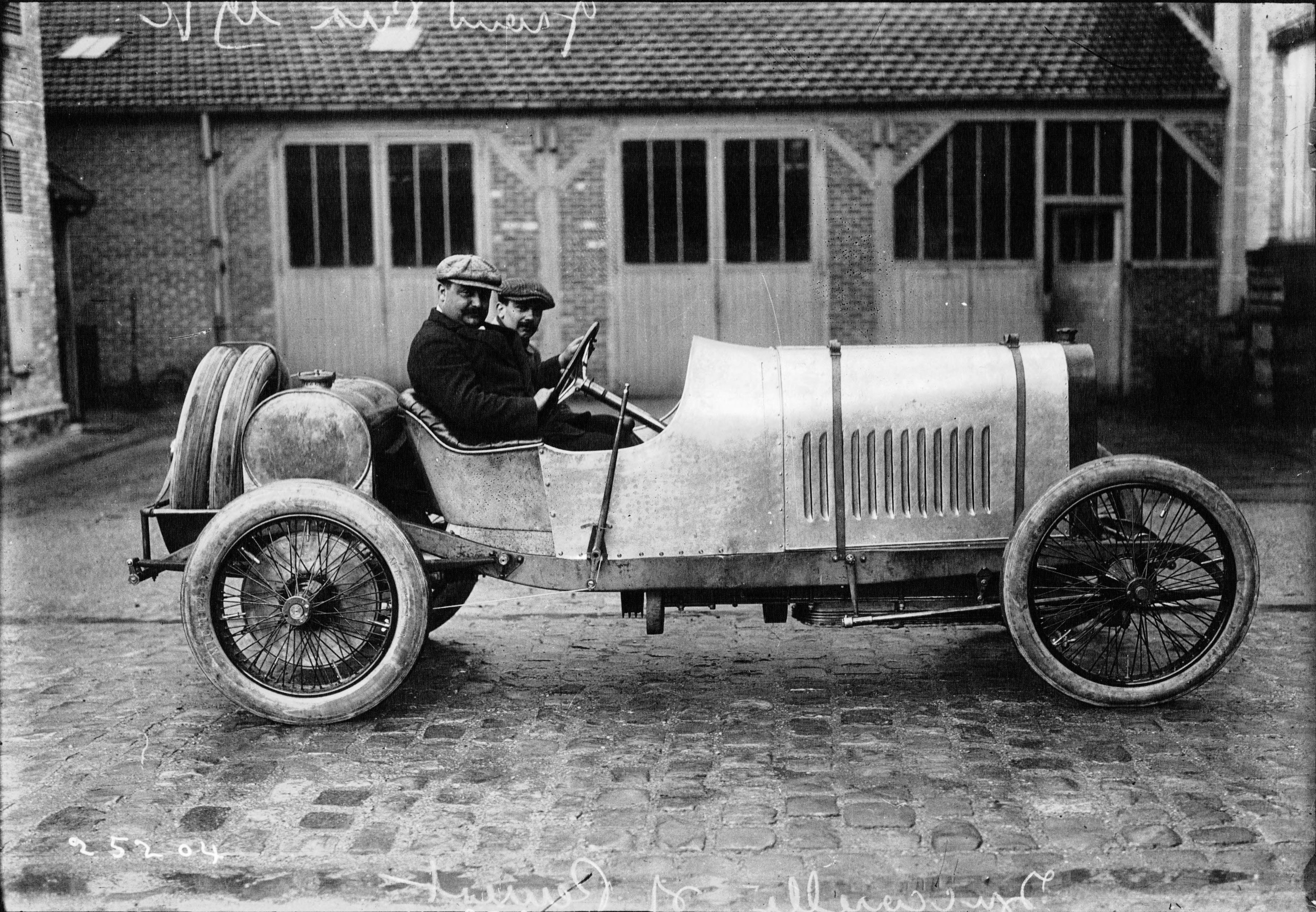 Paolo Zuccarelli in his Peugeot at the 1912 French Grand Prix at Dieppe.